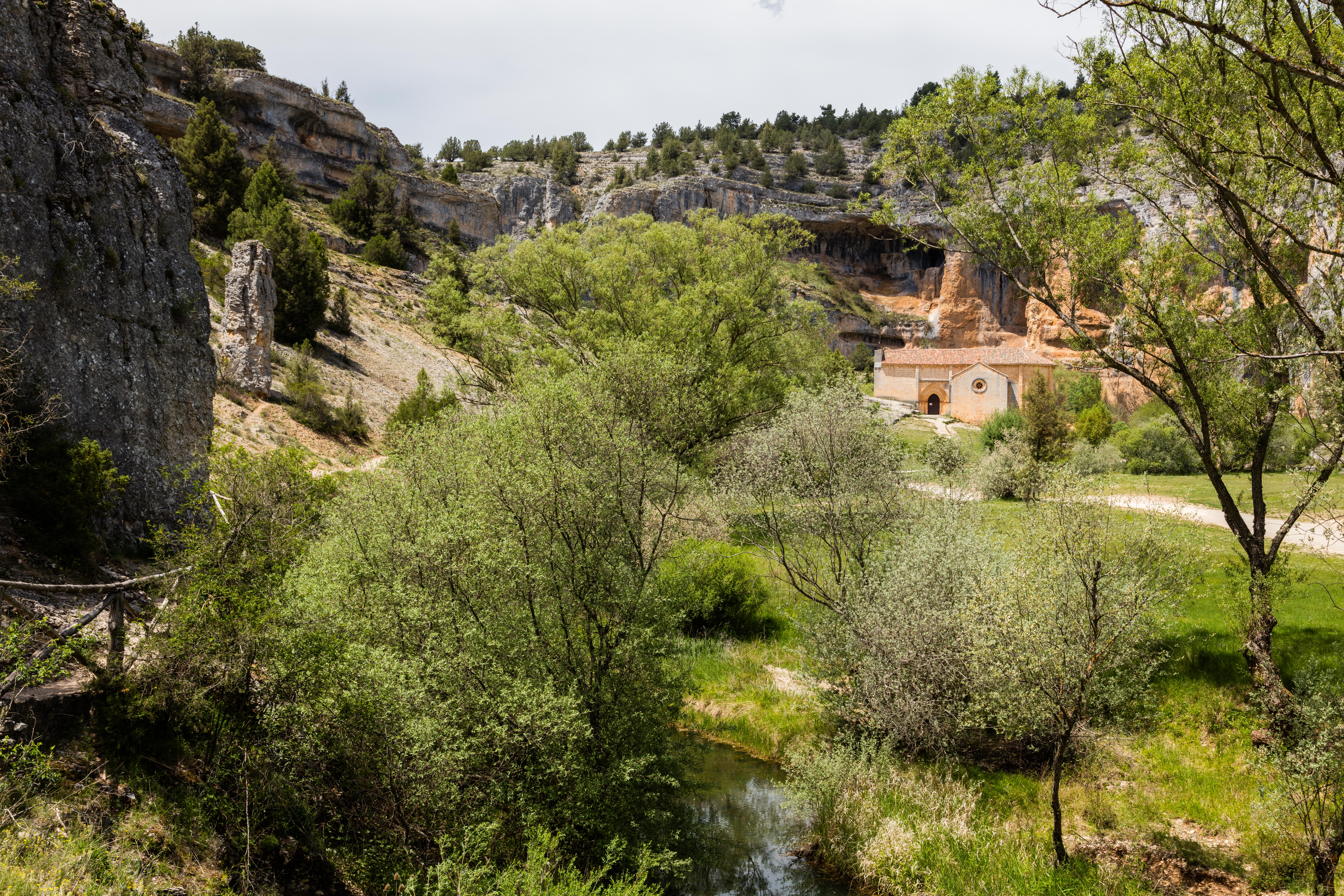 Hermitage of St Bartholomew, Canyon of the Lobos River Natural Park, Soria, Spain